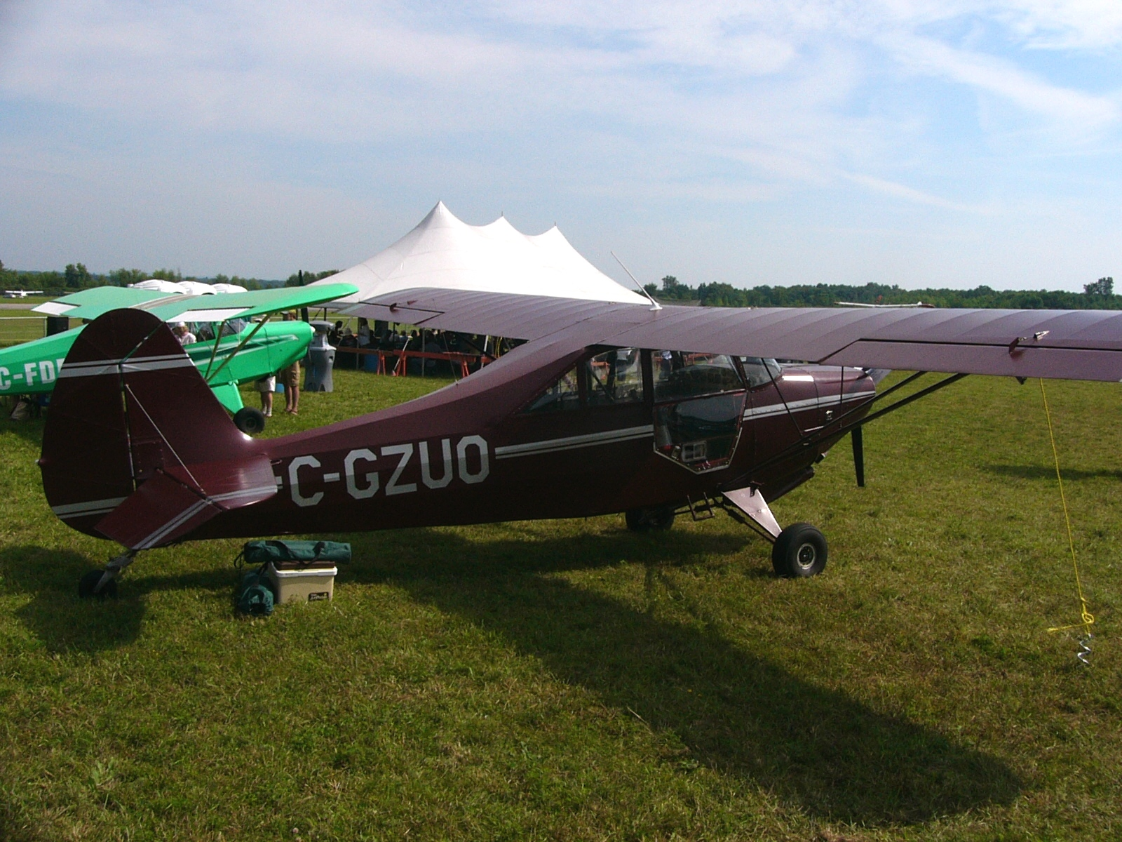 A Christavia Mark 1 at the Classic Air Rallye, Rockcliffe Airport, Ottawa Ontario, Canada